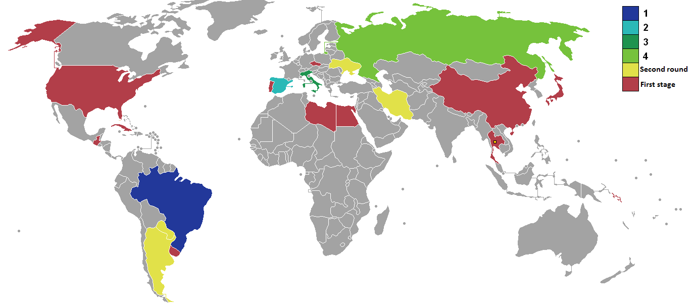 Mapa con los resultados del torneo.